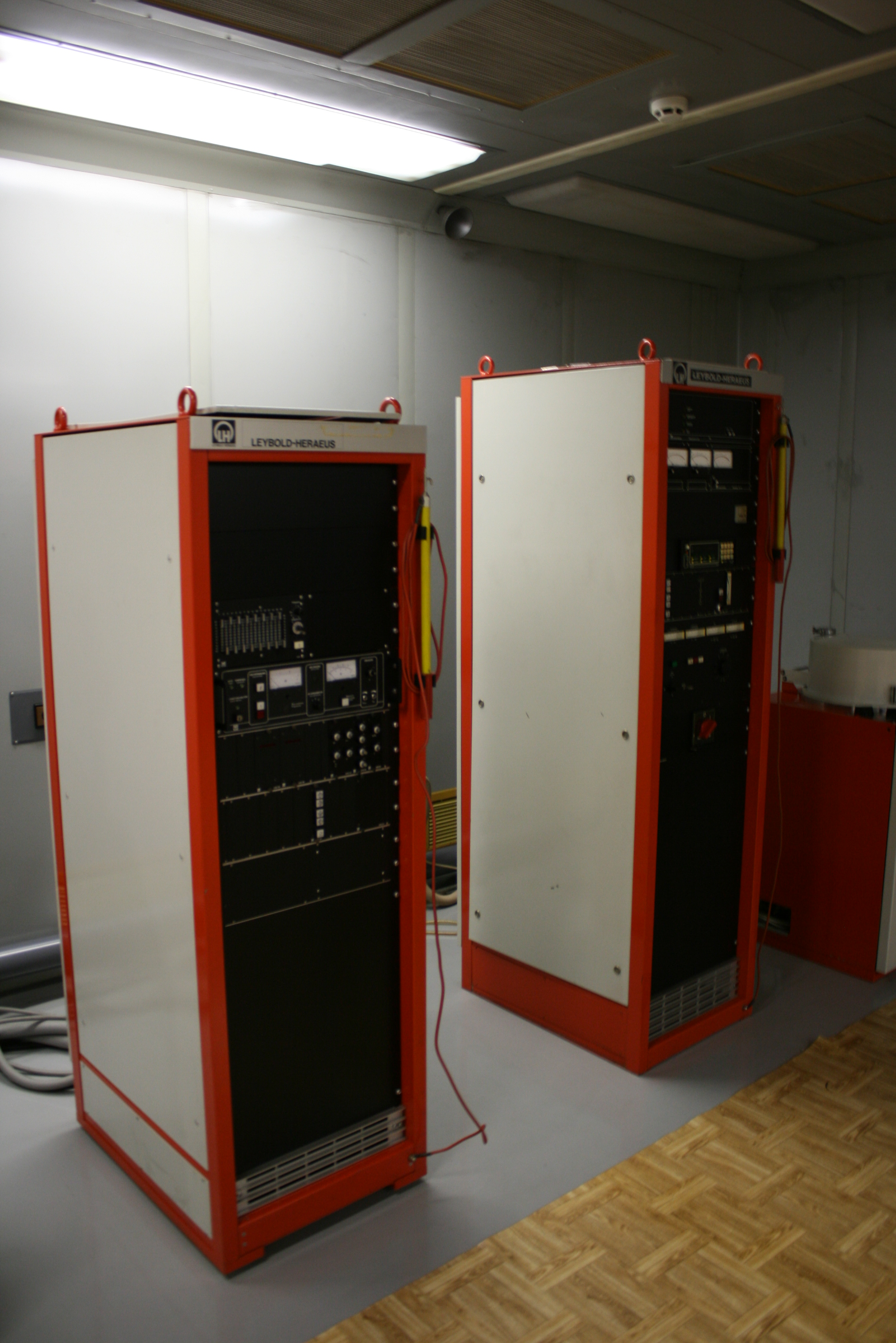 Ion bombardment units used for cathode purification at the Semiconductor Physics and Technology Laboratory at the Physics Faculty of Sofia University